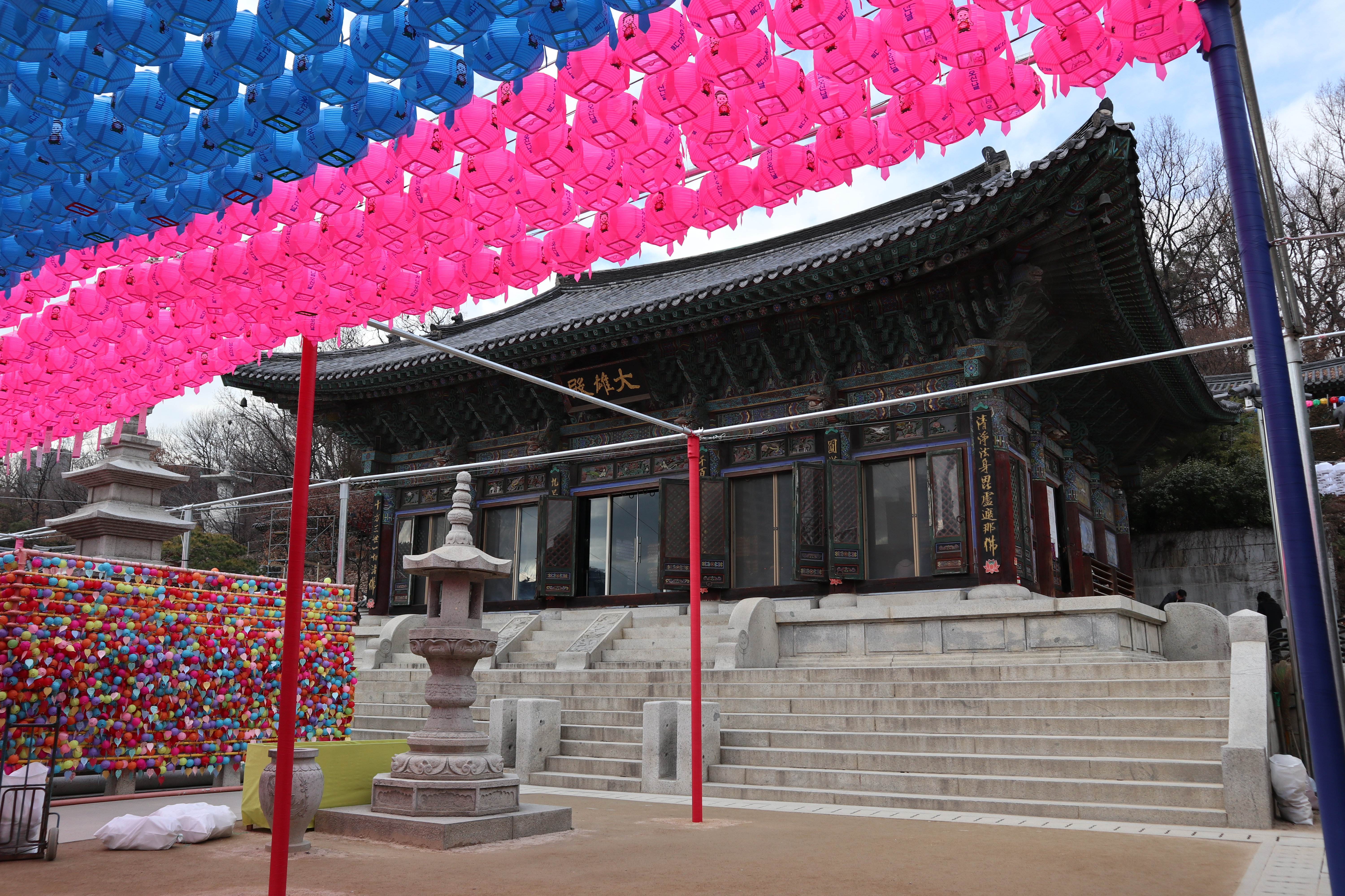 Daeungjeon hall at Bongeunsa